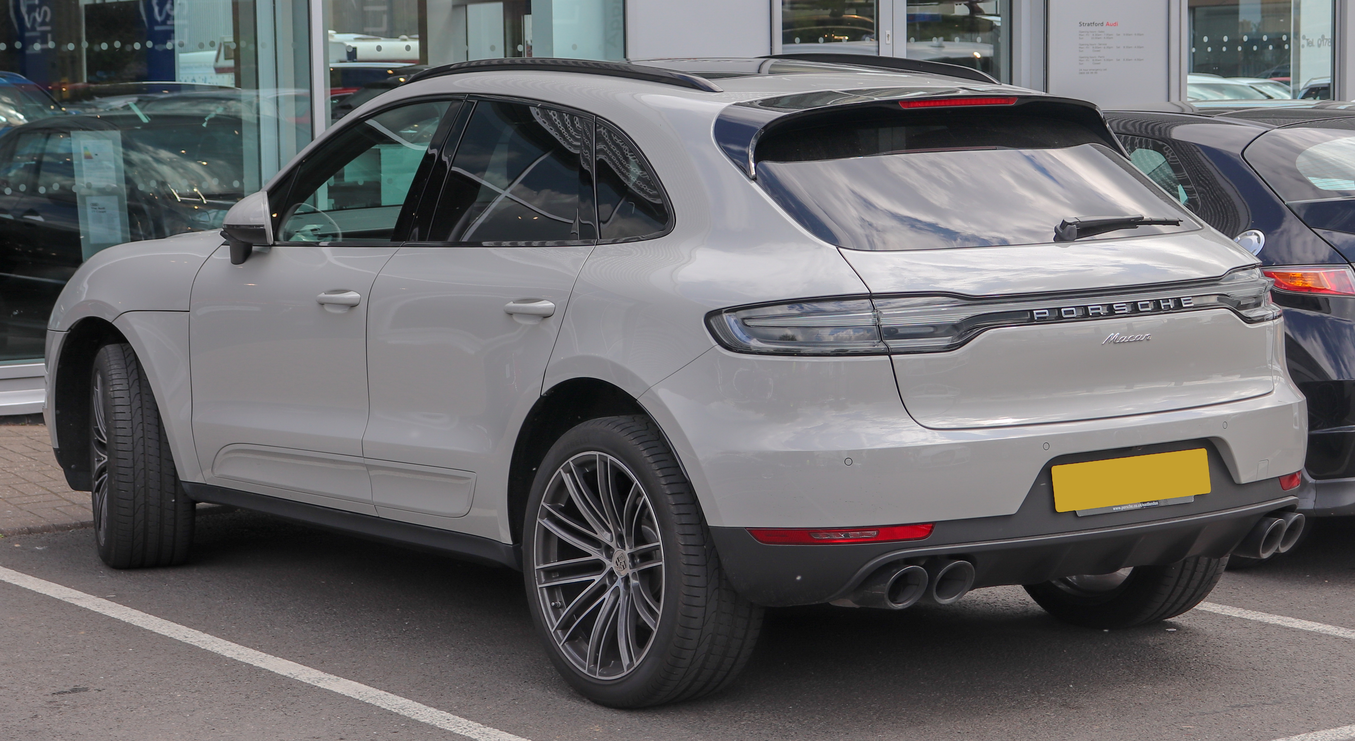 2019 Porsche Macan S-A facelift 2.0 Rear Taken in Stratford-upon-Avon